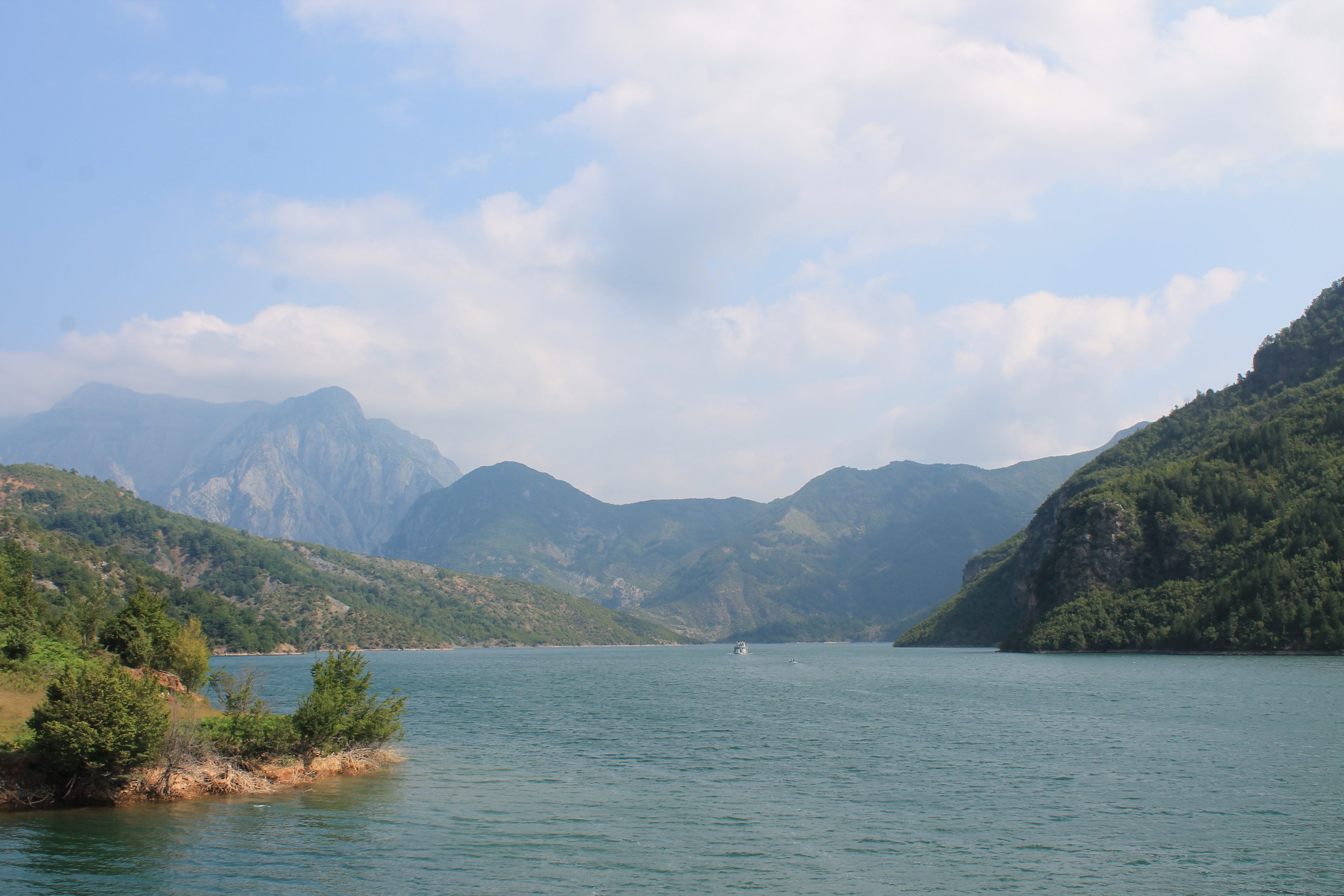 Komani Lake